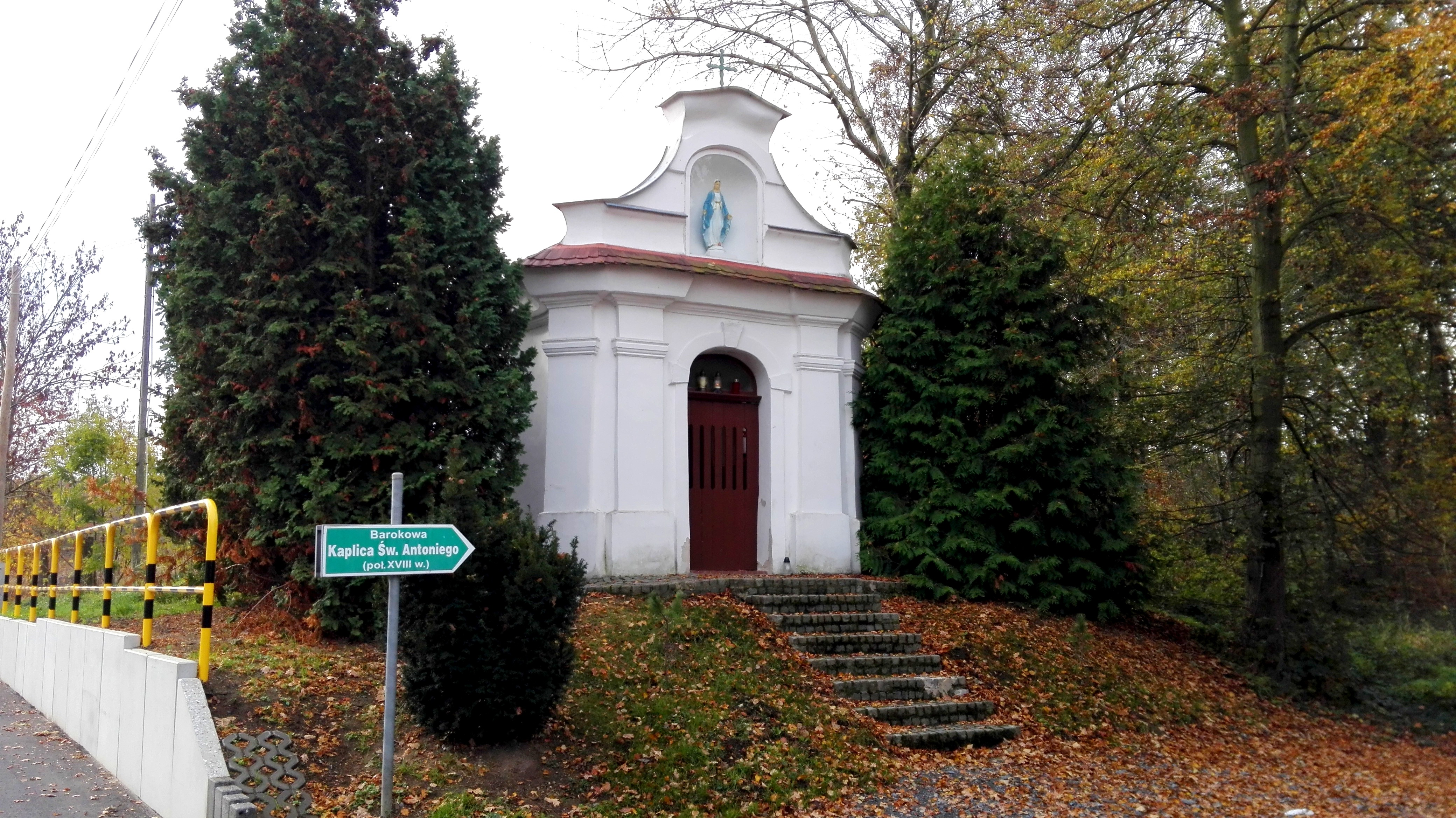 17 Księcia Józefa Poniatowskiego Street in Prudnik 01.1973.